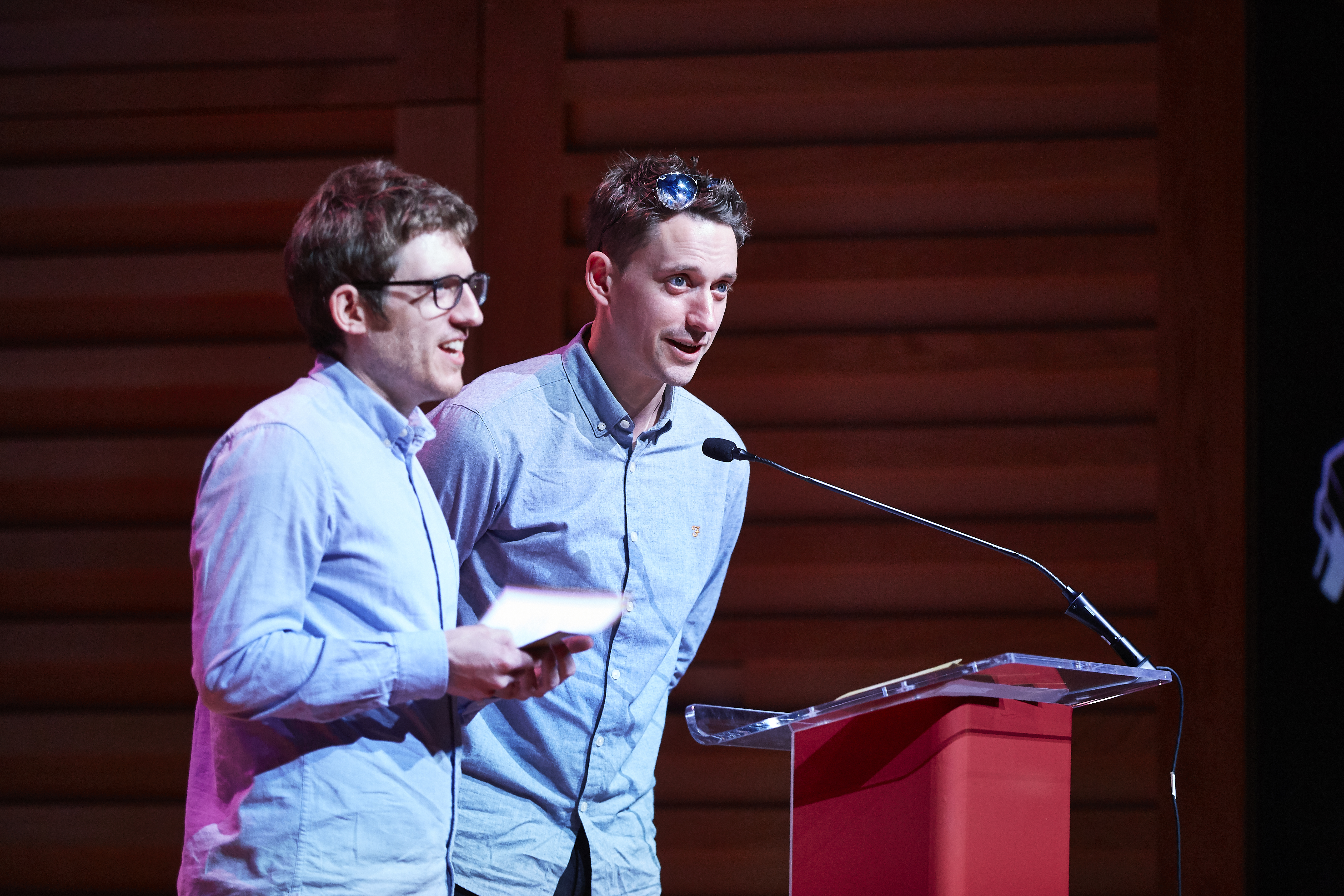 Elis James and John Robbins